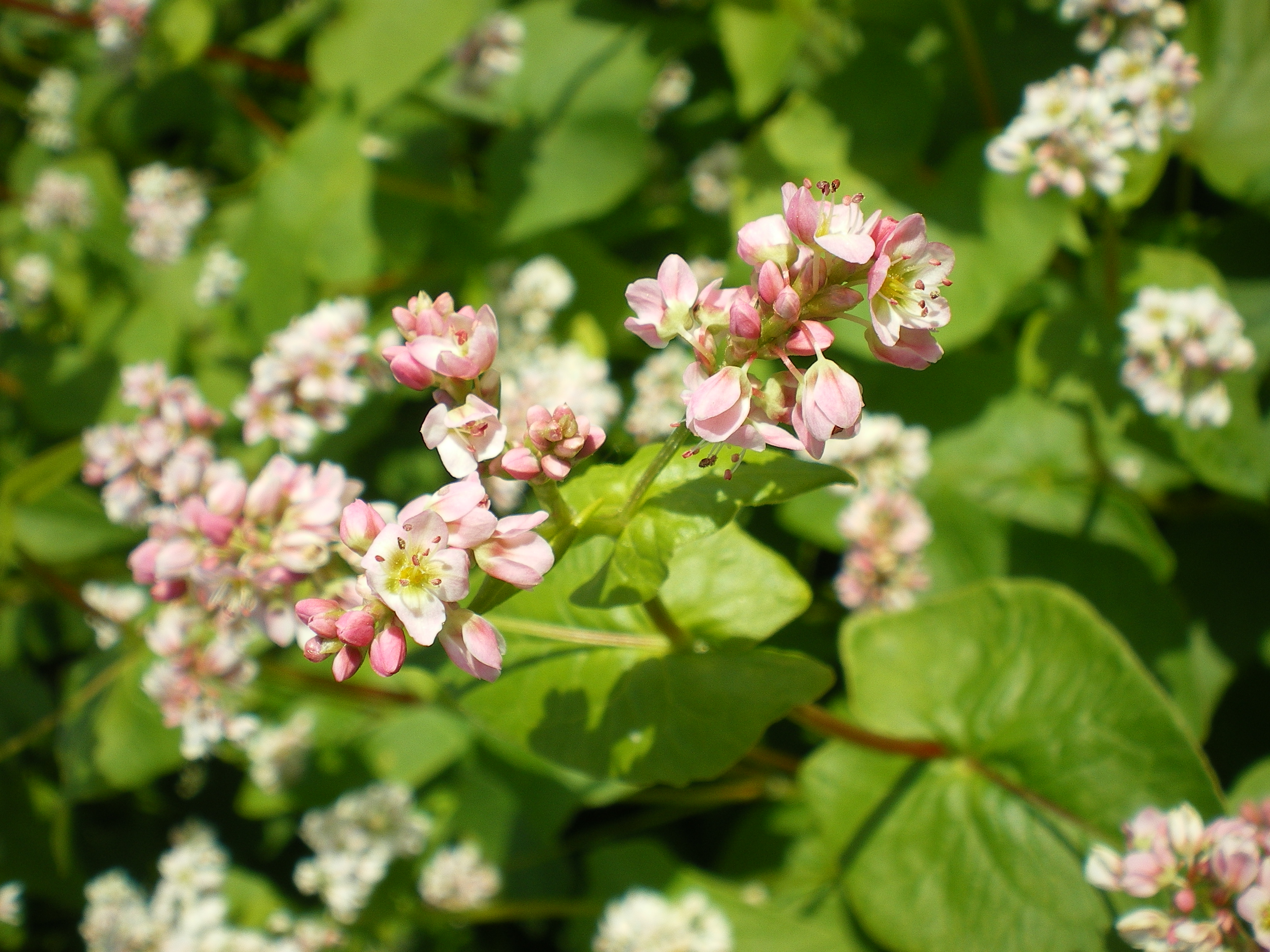 Flowers of Buckwheat (Fagopyrum esculentum)